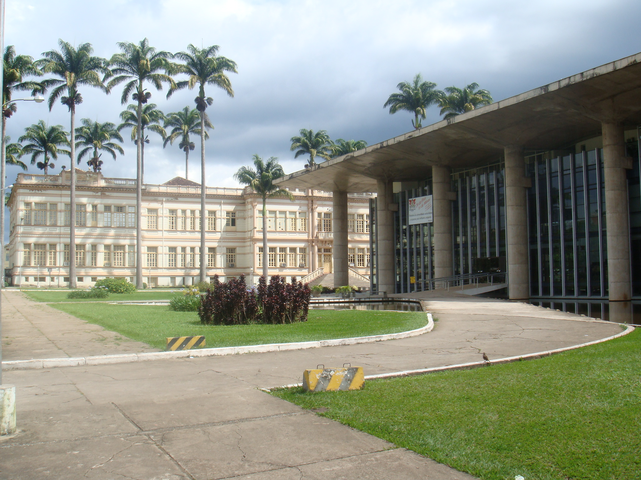 UFV Center